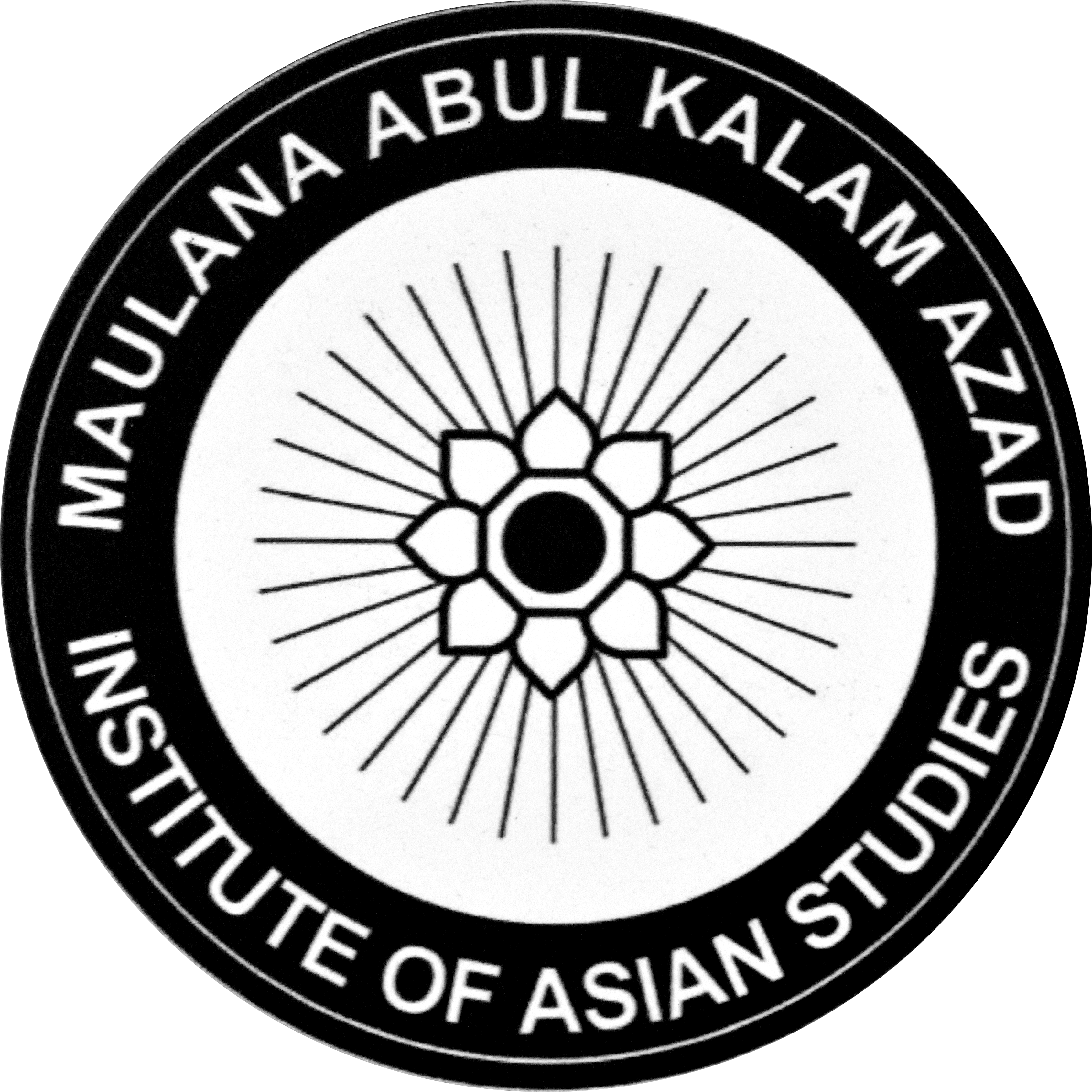 Logo of the Maulana Abul Kalam Azad Institute of Asian Studies (MAKAIAS) under Ministry of Culture, Govt of India at IB Block, Salt Lake City, Kolkata.